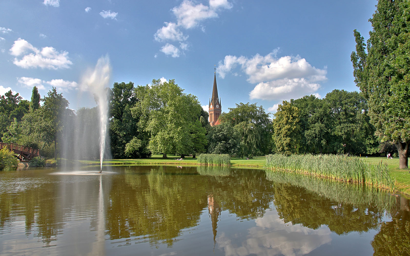 Pond in the park “Johannapark” in Leipzig with Luther Church